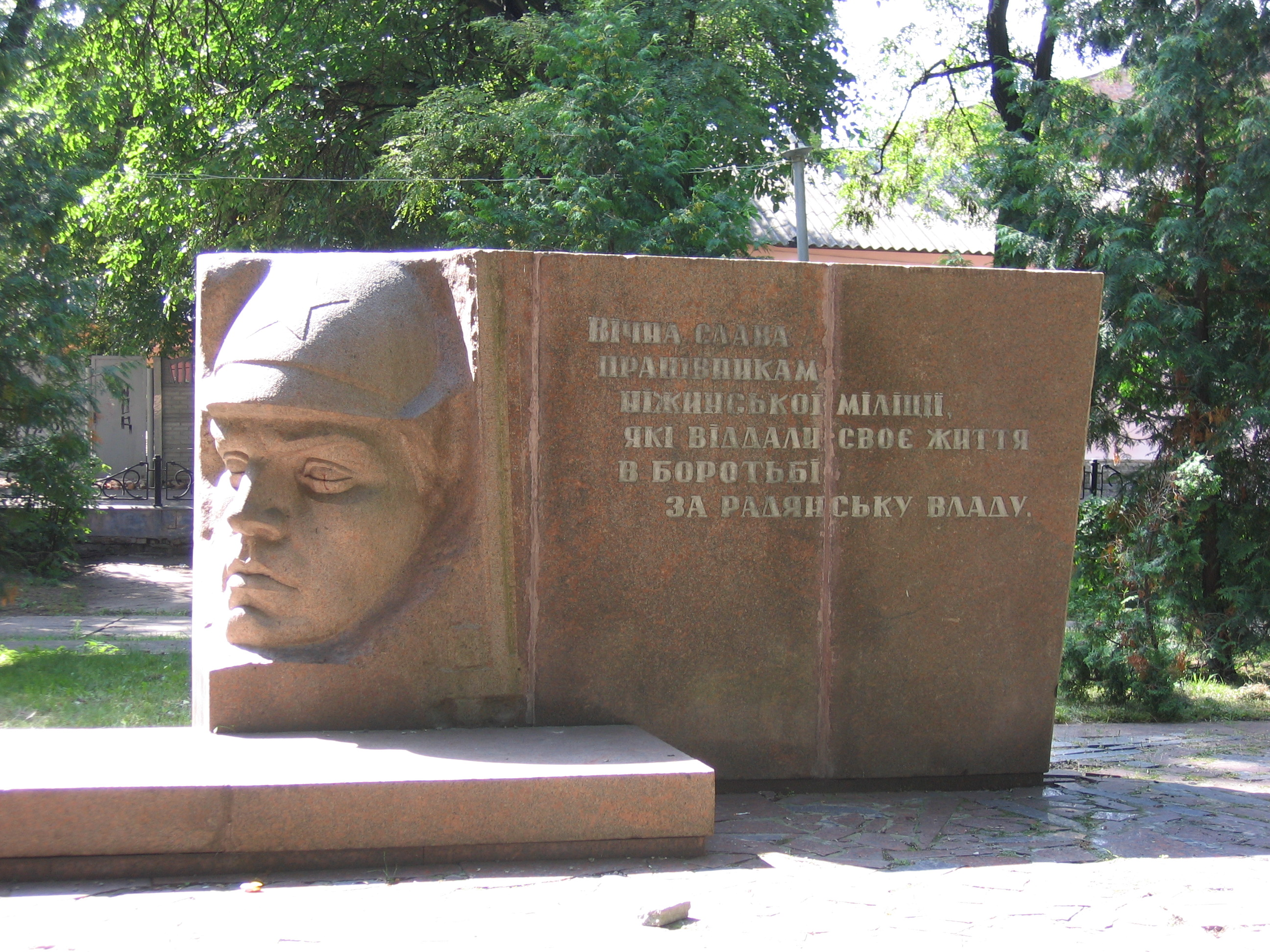 Nizhyn, Ukraine